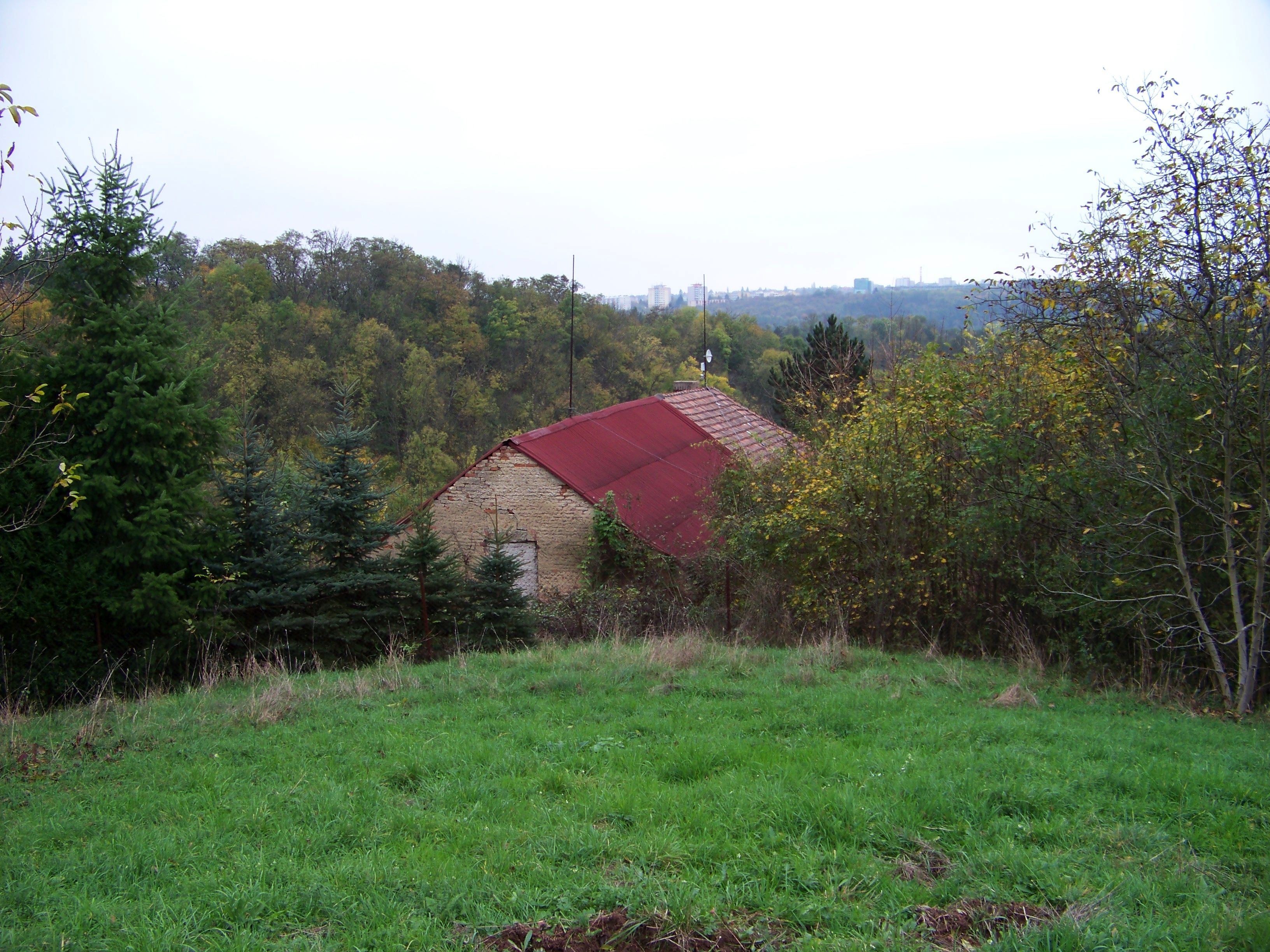 K vinicím 52, Ševčice, Nebušice, Prague, Czech Republic.